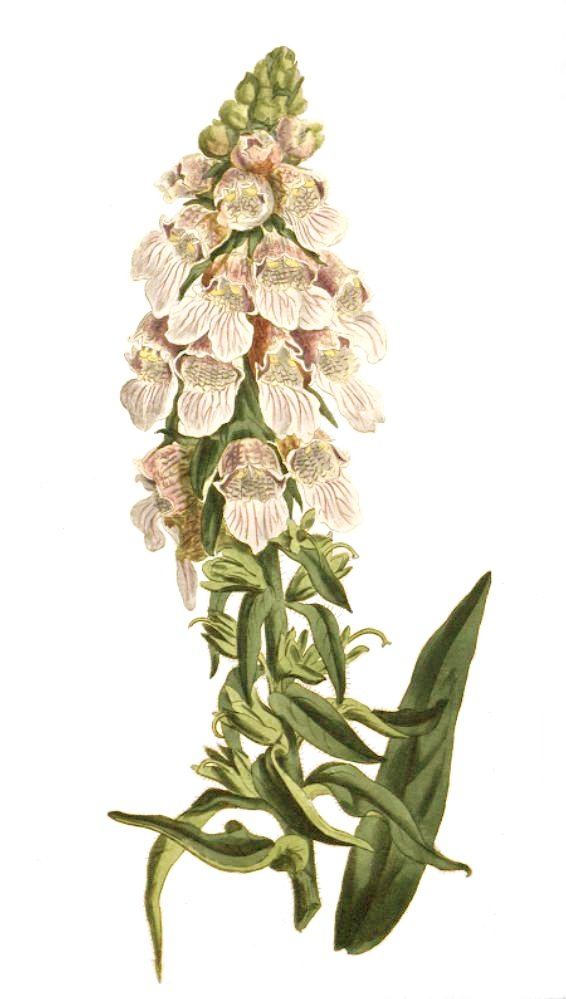 Illustration of Digitalis lanata